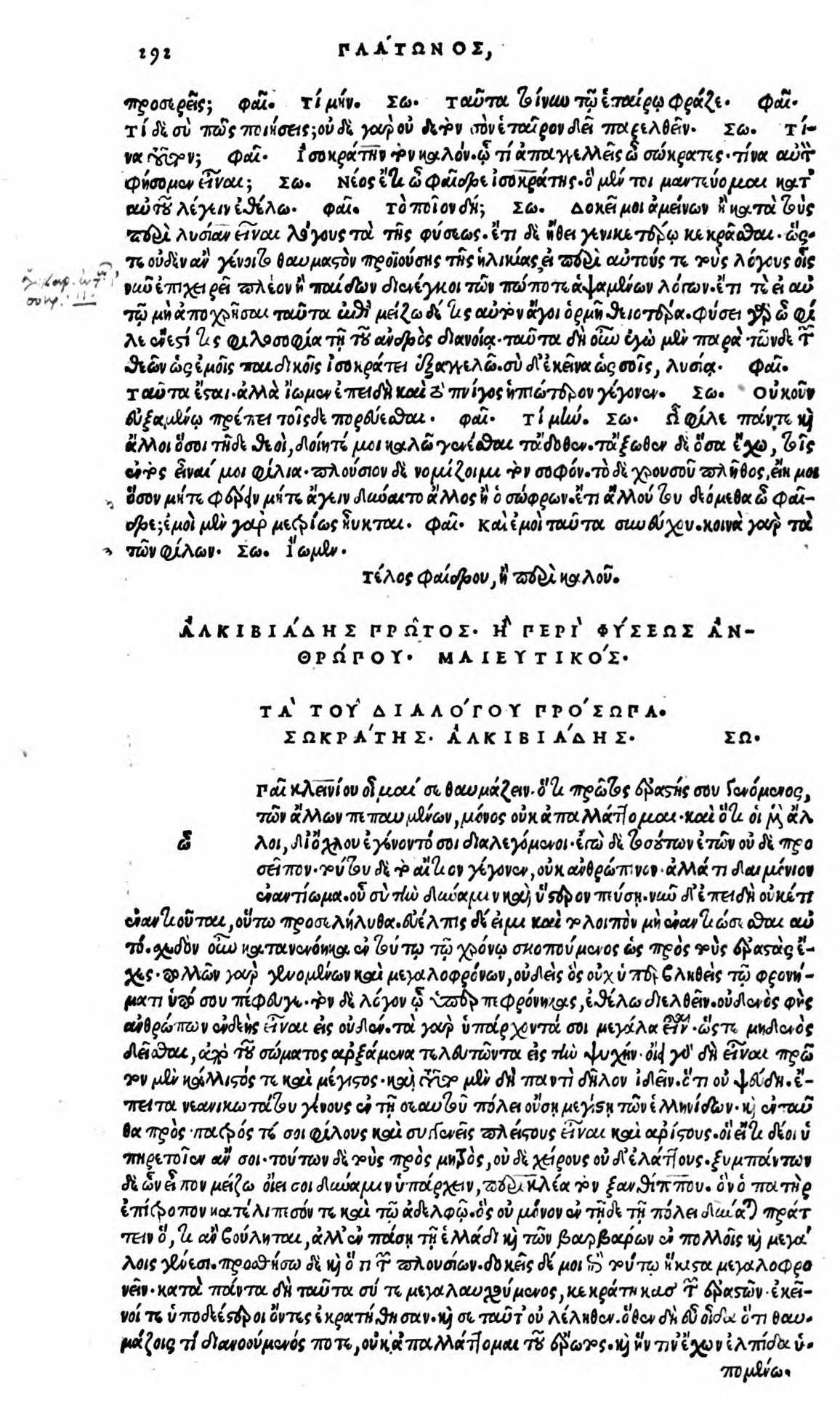 Alkibiades A beginning. Editio princeps, Venice 1513.